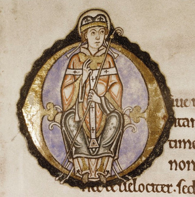 An illuminated O featuring an archbishop—presumably Anselm—from the copy of Anselm's Prayers and Meditations found in MS. Auct. D. 2. 6, a 12th-century illuminated text collected by the Benedictine nunnery at Littlemore and held since c.1672 by Oxford's Bodleian Library.